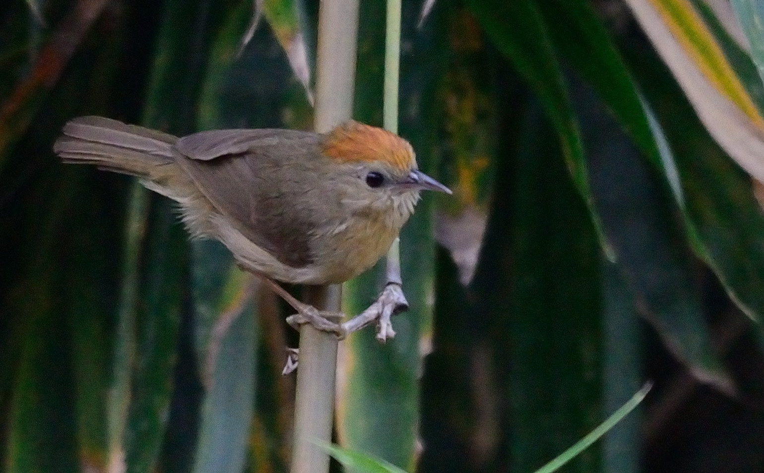 Buff-chested Babbler Stachyridopsis ambigua (syn. Stachyridopsis rufifrons ambigua), Wakro, Arunachal Pradesh